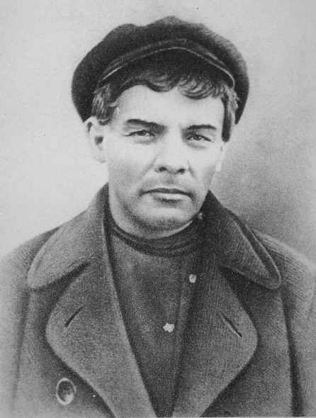 Vladimir Lenin, July—August 1917